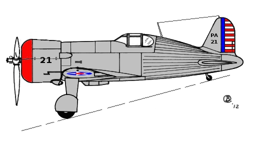 Wedell-Williams XP-34 Reference Jones and Hirsh